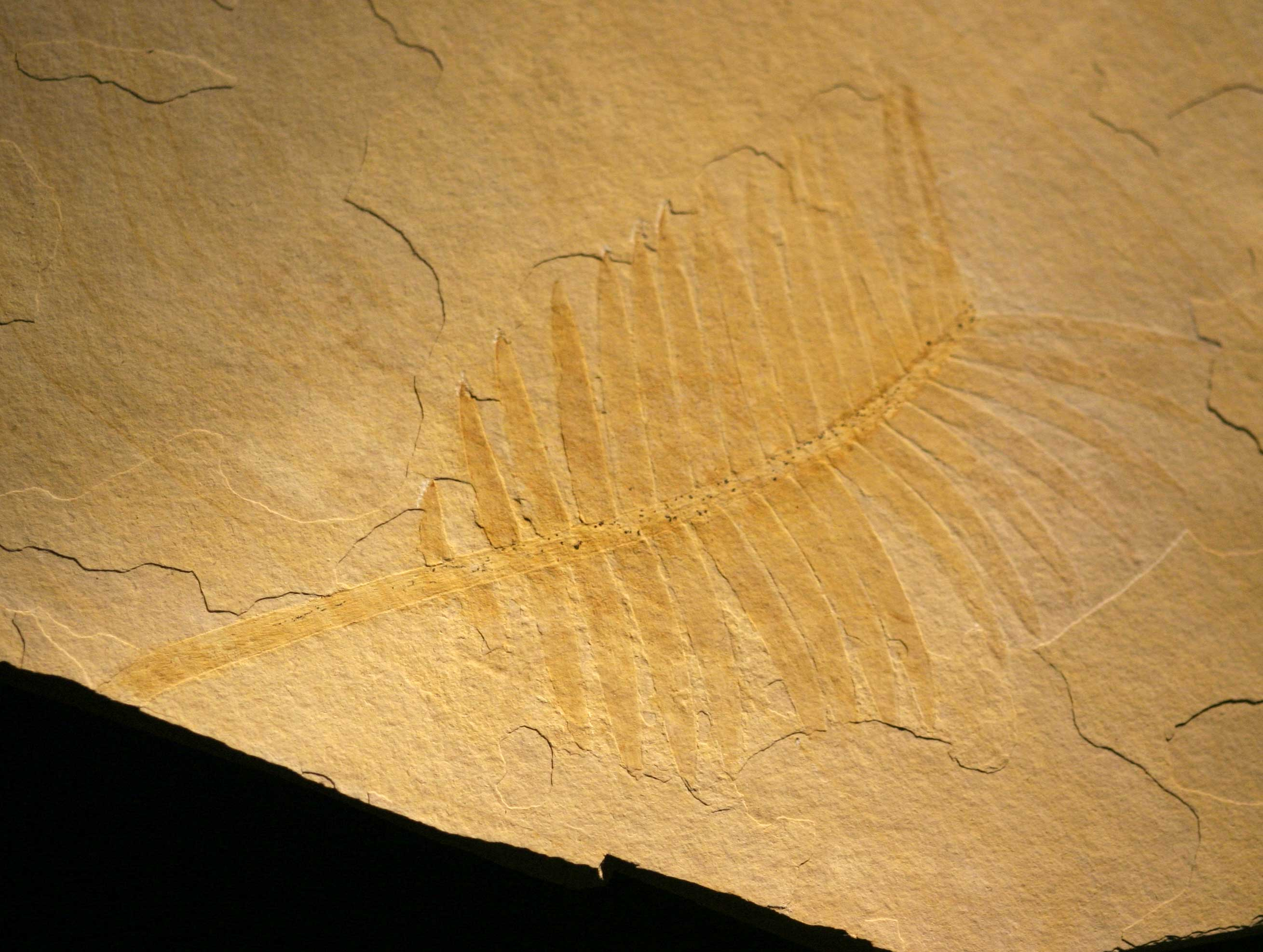 Here is a fossil specimen of the upper Jurassic (upper Kimmeridgium) Cycad species Zamites feneonis BRONGNIART. It was found in the Quarry at Brunn in the Solnhofen region. It belongs in the Lithographical limestone facies.